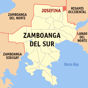 Map of Zamboanga del Sur showing the location of Josefina